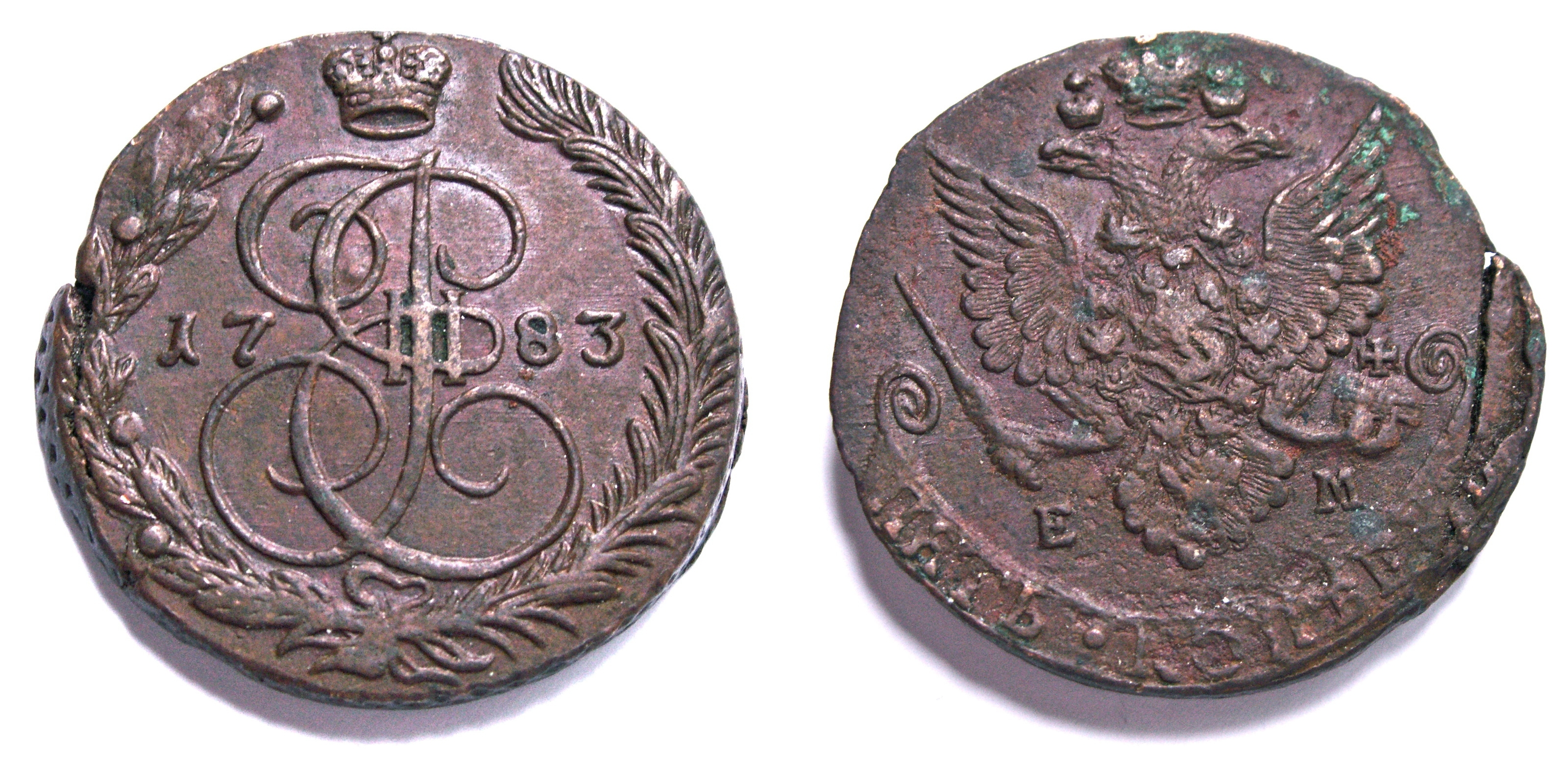 5 Kopecks Coin, Copper, Russia 1783, Catherine the Great. Property of Hofer Antikschmuck, Berlin (Germany)